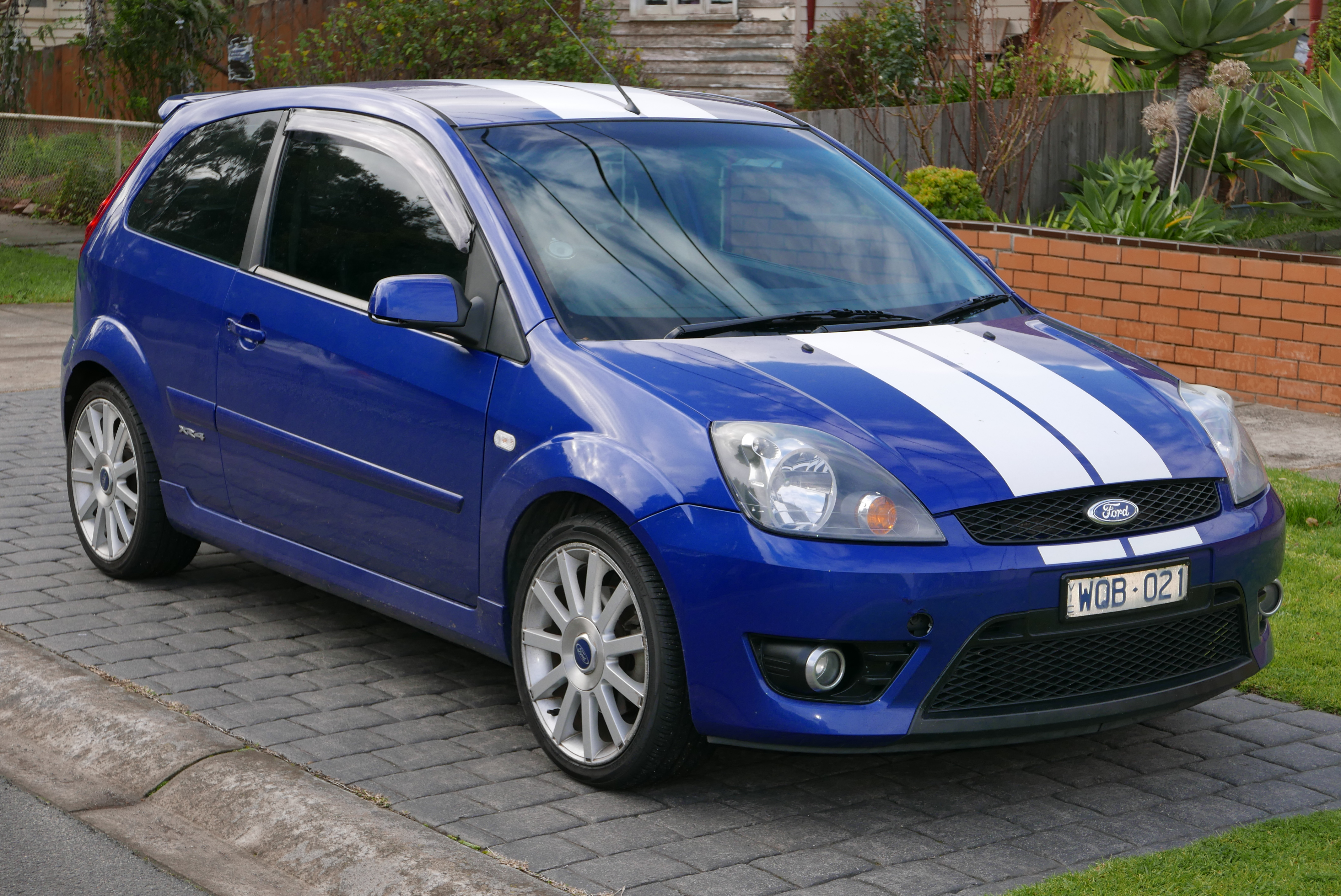 2008 Ford Fiesta (WQ) XR4 3-door hatchback. Photographed in Alphington, Victoria, Australia. Vehicle registration enquiry resultsJurisdictionVictoriaRegistrationWQB021Chassis codeWF0DXXGAJD8A51020Engine codeN4JB8A21050Compliance date2008-05Year of manufacture2008